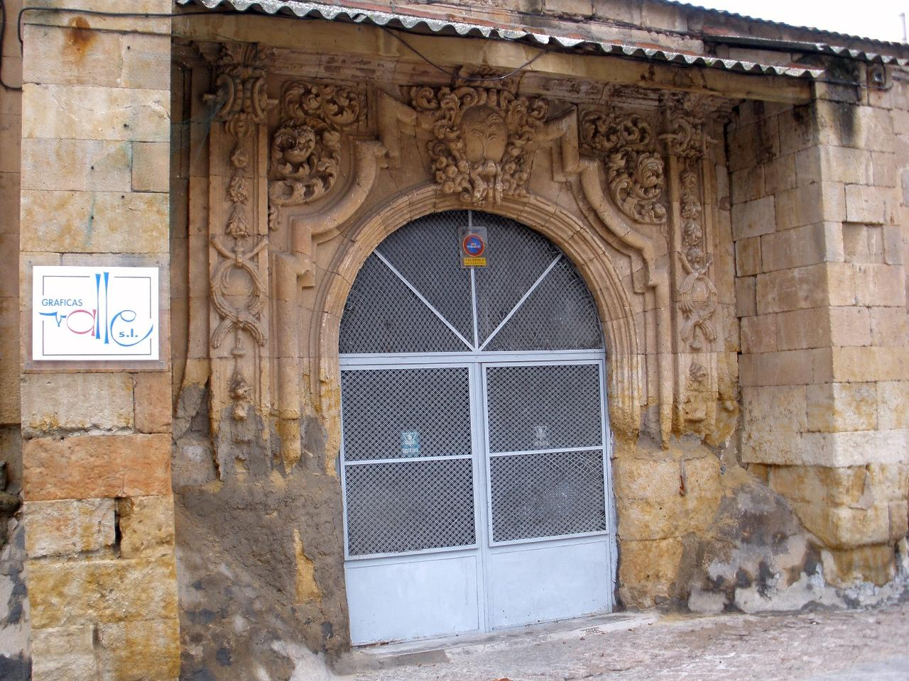 Antigua ermita de Nuestra Señora de la Misericordia, en Salamanca (España)